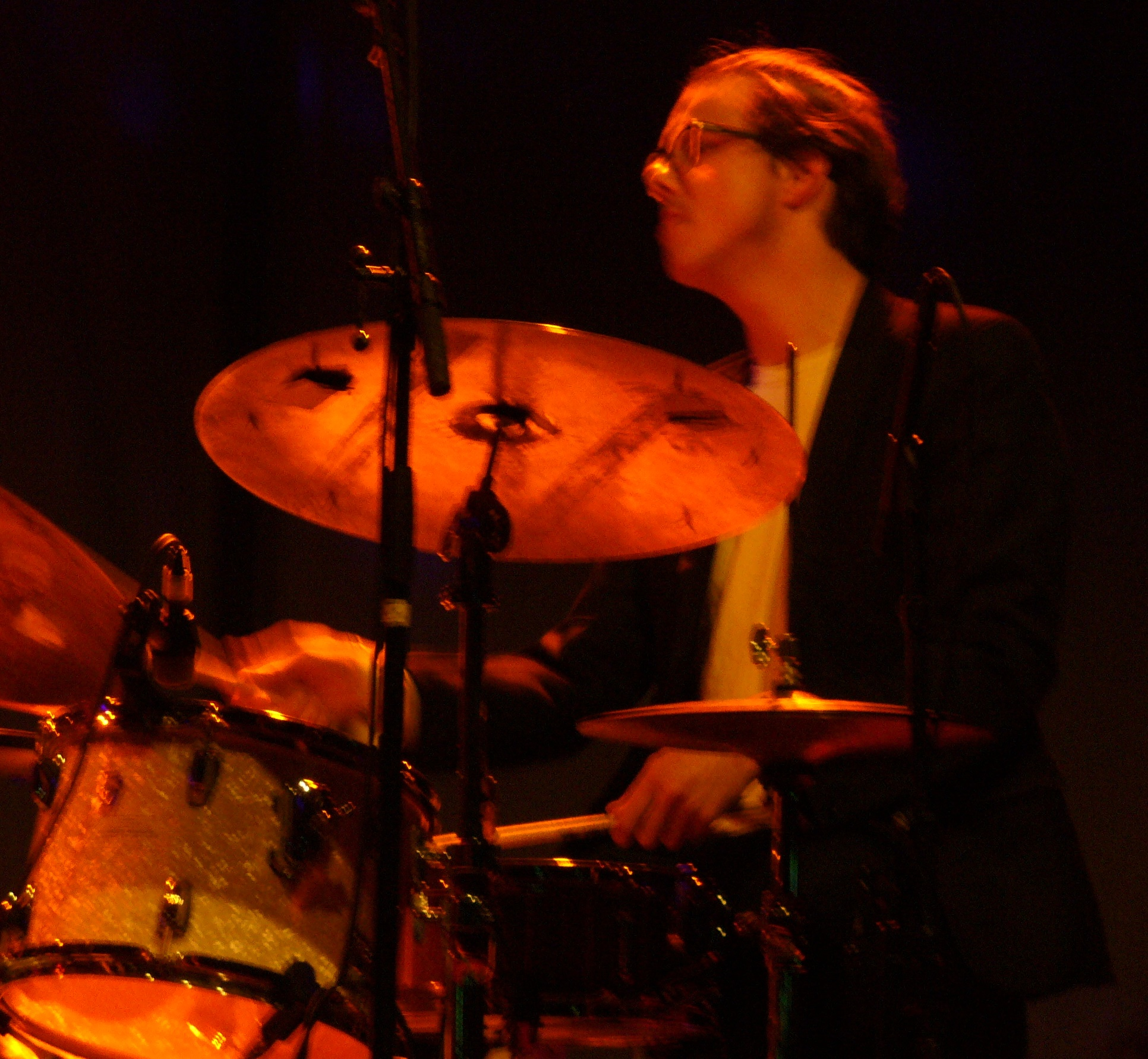 Jens H. Sjøvaag with Gisle Torvik and Eple Trio at Vossajazz 2014.